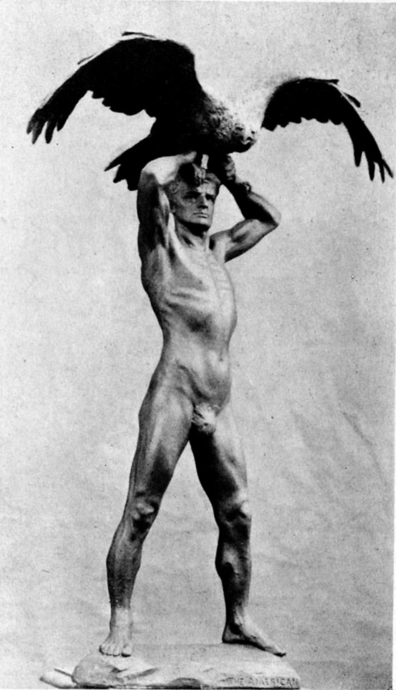 One of Anna Coleman Ladd's early sculptures, «The American».